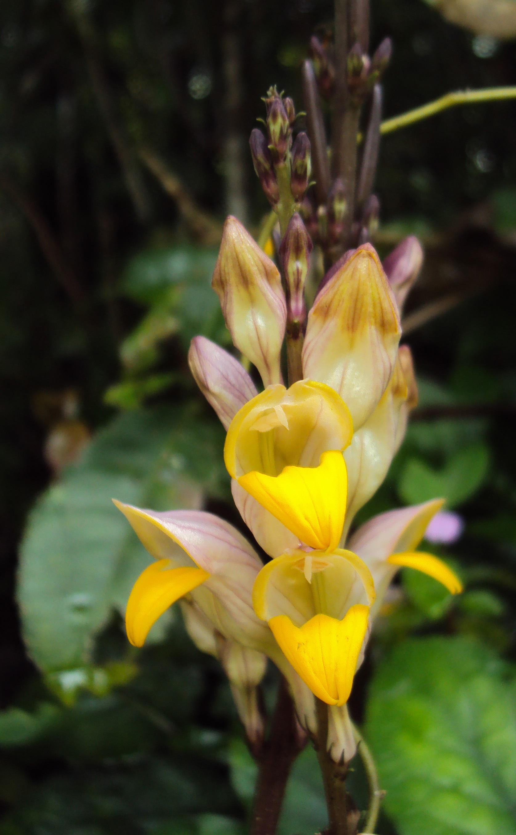 Gymnostachyum febrifugum